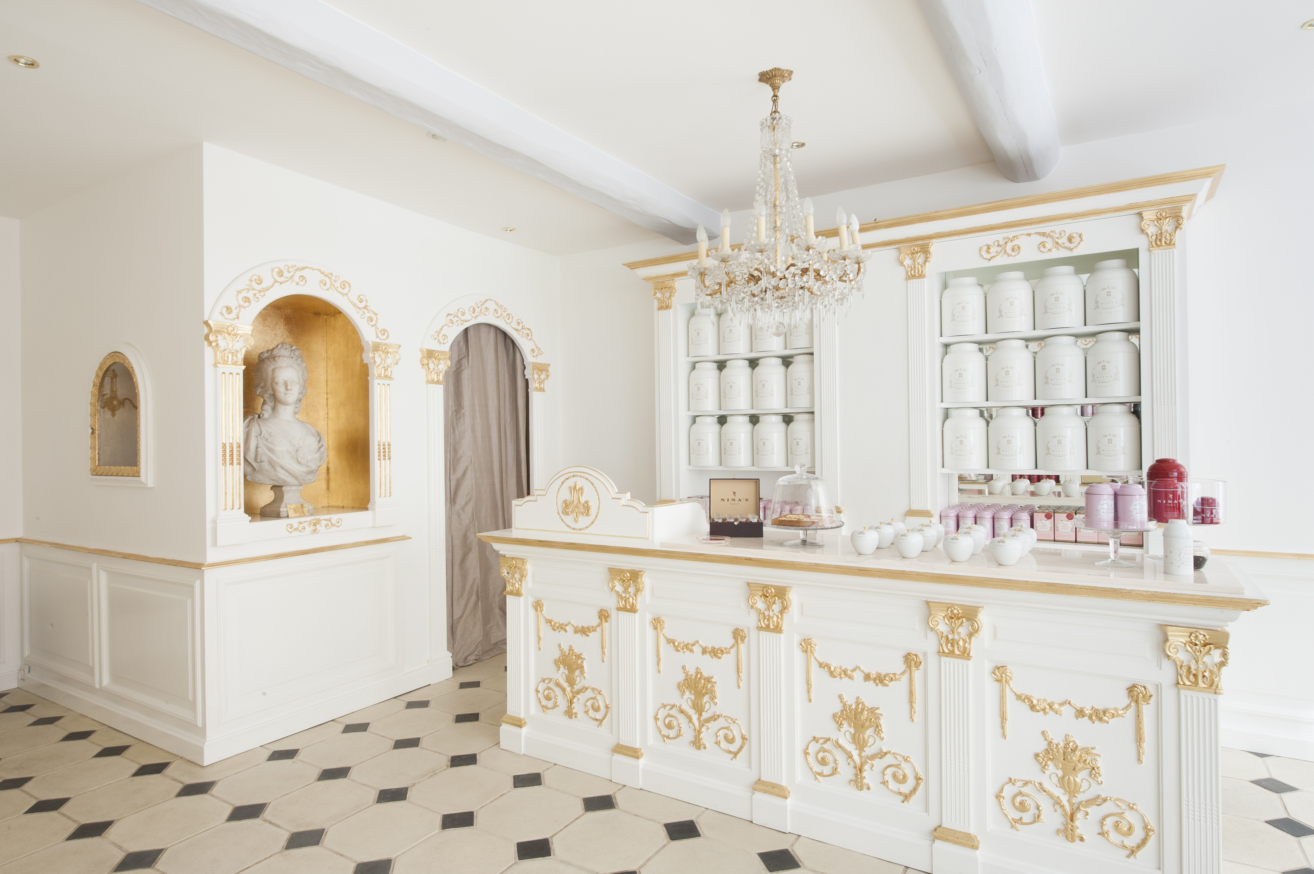 Nina's Paris Tea Store, 29 rue Danielle-Casanova, 75001 Paris, France.